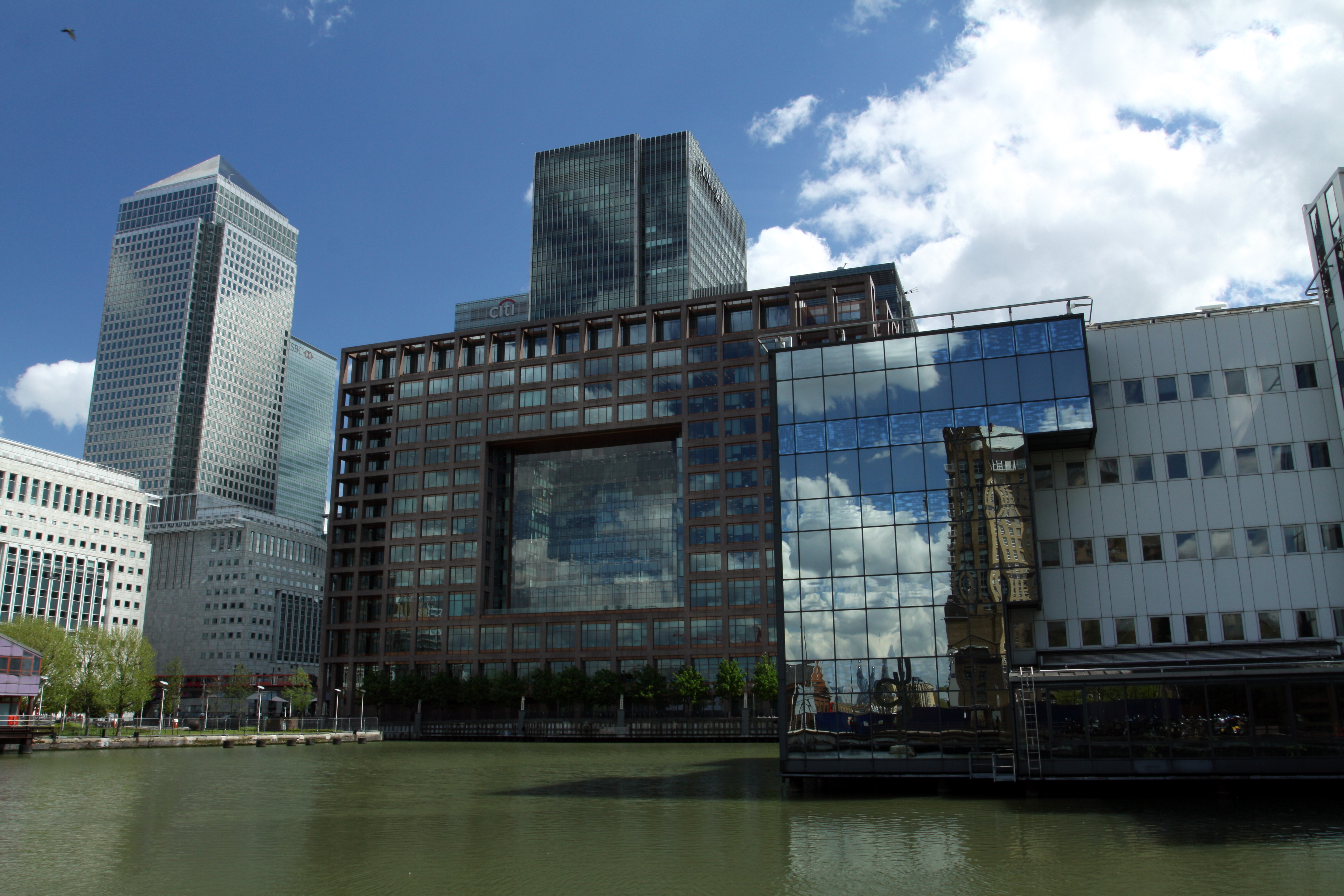 20 Bank Street in London Borough of Tower Hamlets, London, England, Great Britain The making of this file was supported by Wikimedia UK.